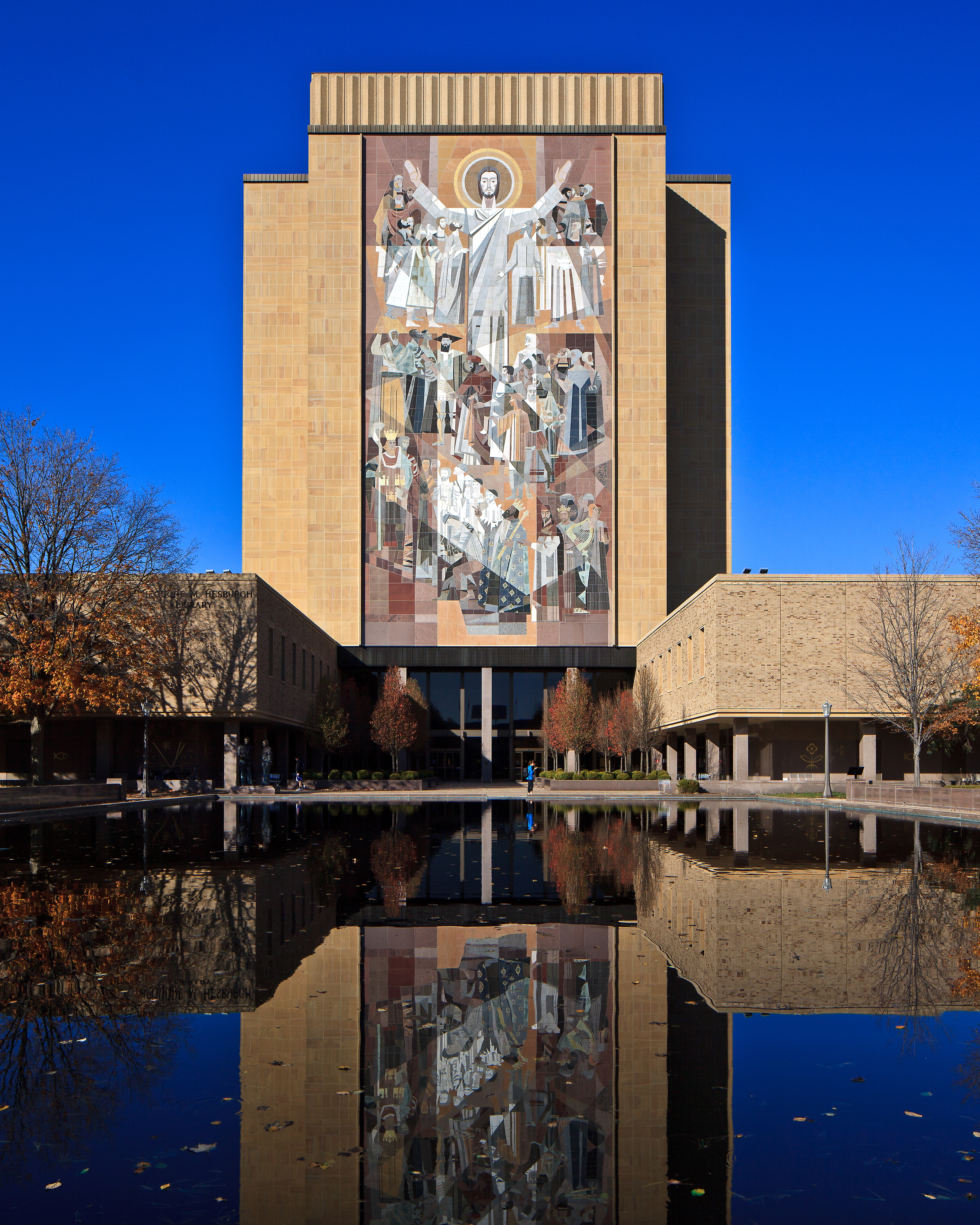 The Word of Life is a large mural on the side of the Theodore Hesburgh Library depicting the resurrected Jesus. Designed by Millard Sheets, it was installed in 1964 as a gift of Mr. and Mrs. Howard V. Phalin. Stemming from the fashion in which Jesus' arms are raised and its visibility from Notre Dame Stadium, the mural has become popularly known as "Touchdown Jesus".